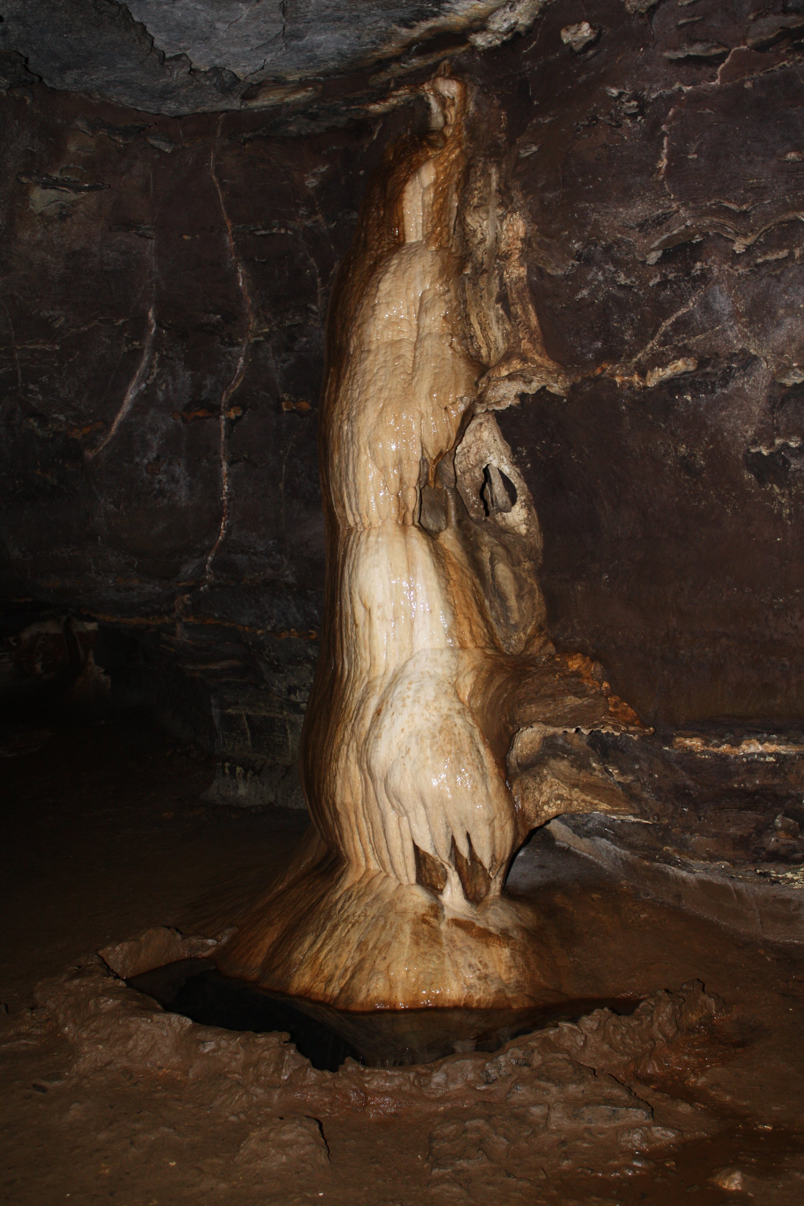 Sudwala Caves